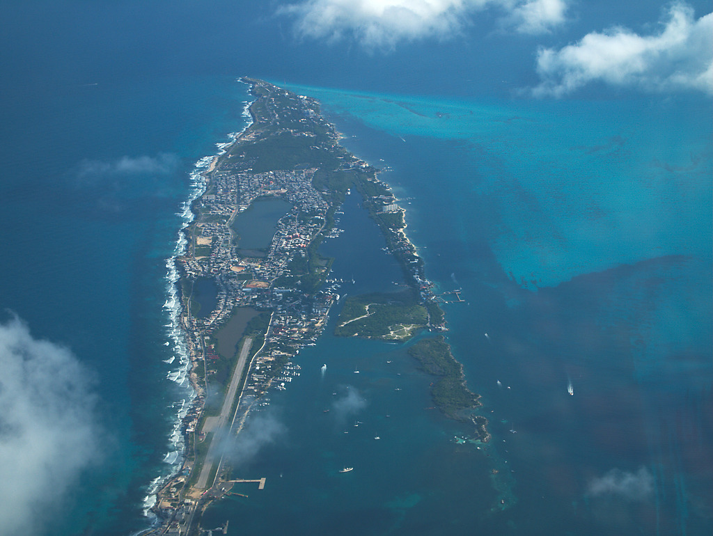 Most of the Isla can be seen below (7km out of the total 8km in length). Punta Sur -- southernmost point of the island is at the top of the photo. What's missing from the photo is the "downtown" and Playa Norte.